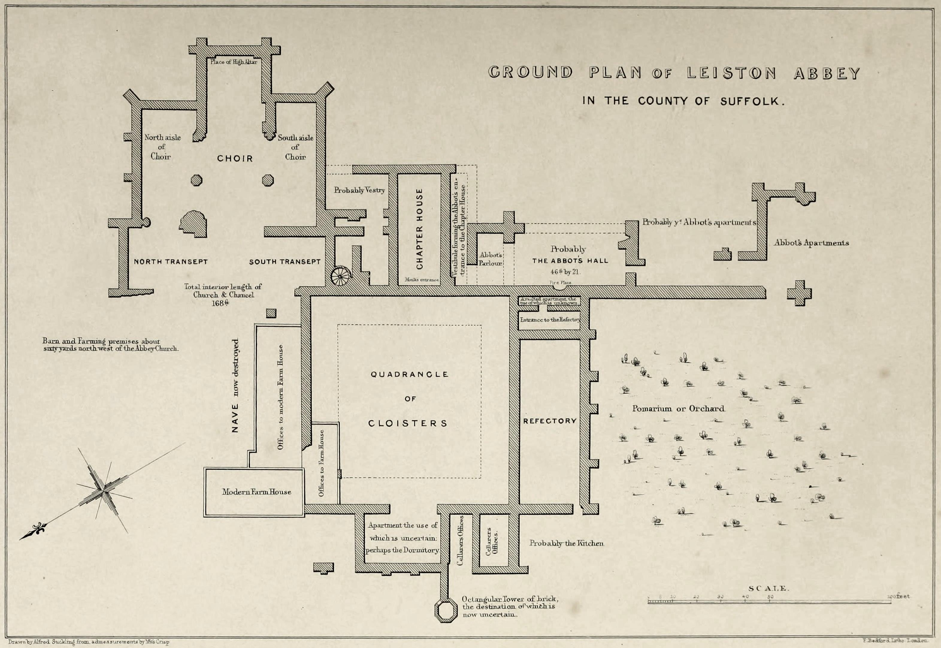 Ground Plan of the 14th century ruins of the Premonstratensian abbey at Leiston, Suffolk, made by Suffolk historian Alfred Inigo Suckling in 1848